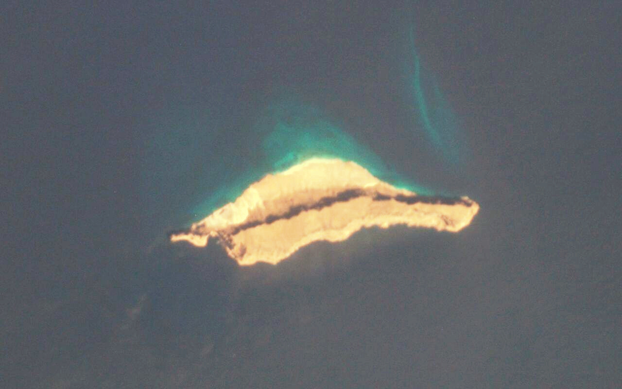 NASA astronaut image of Darsah island, Socotra Archipelago, Yemen